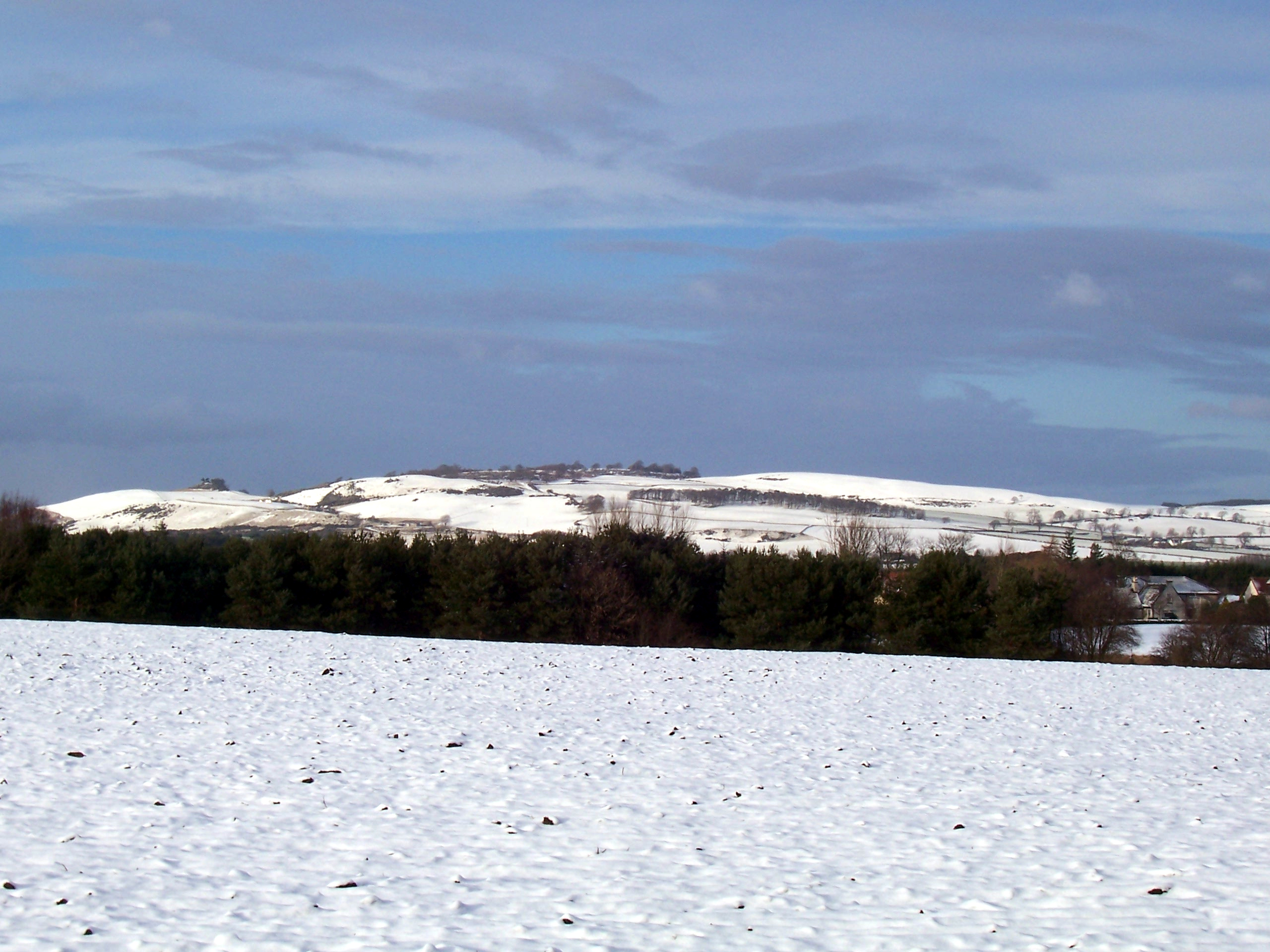 Cairnie Hill in Winter